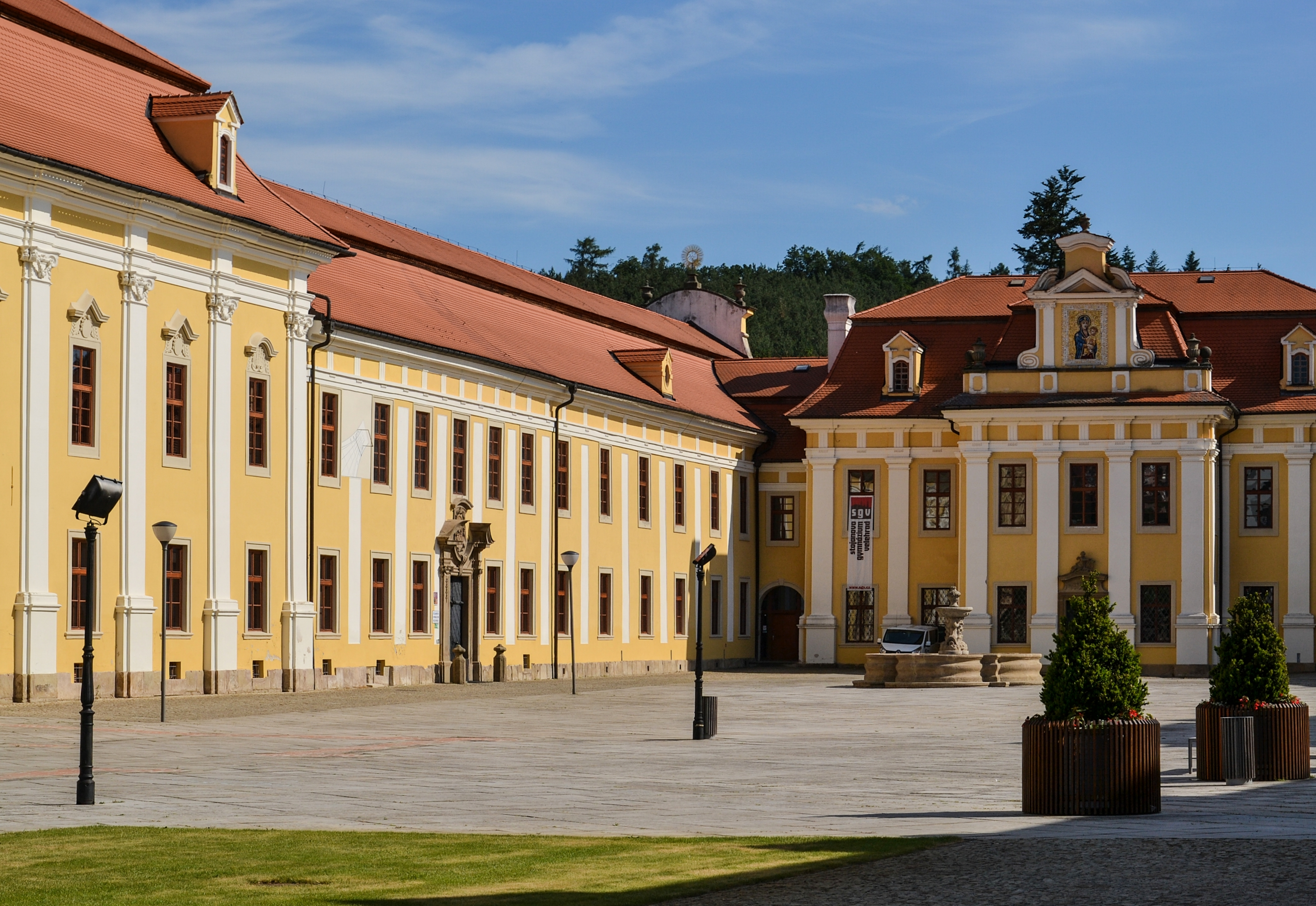 Velehrad, Czech Republic - Stojanovo catholic school